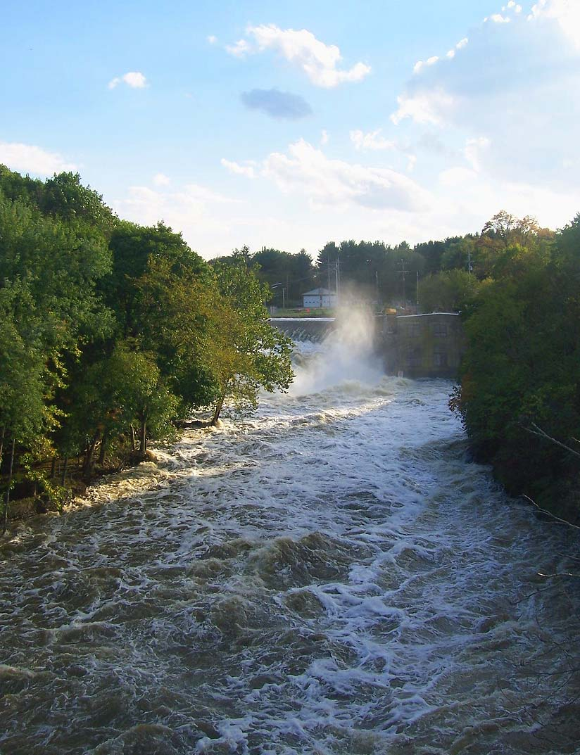 Photographed by Daniel Case 2005-10-15 after 10 inches (25.4 cm) of rainfall within the last week.